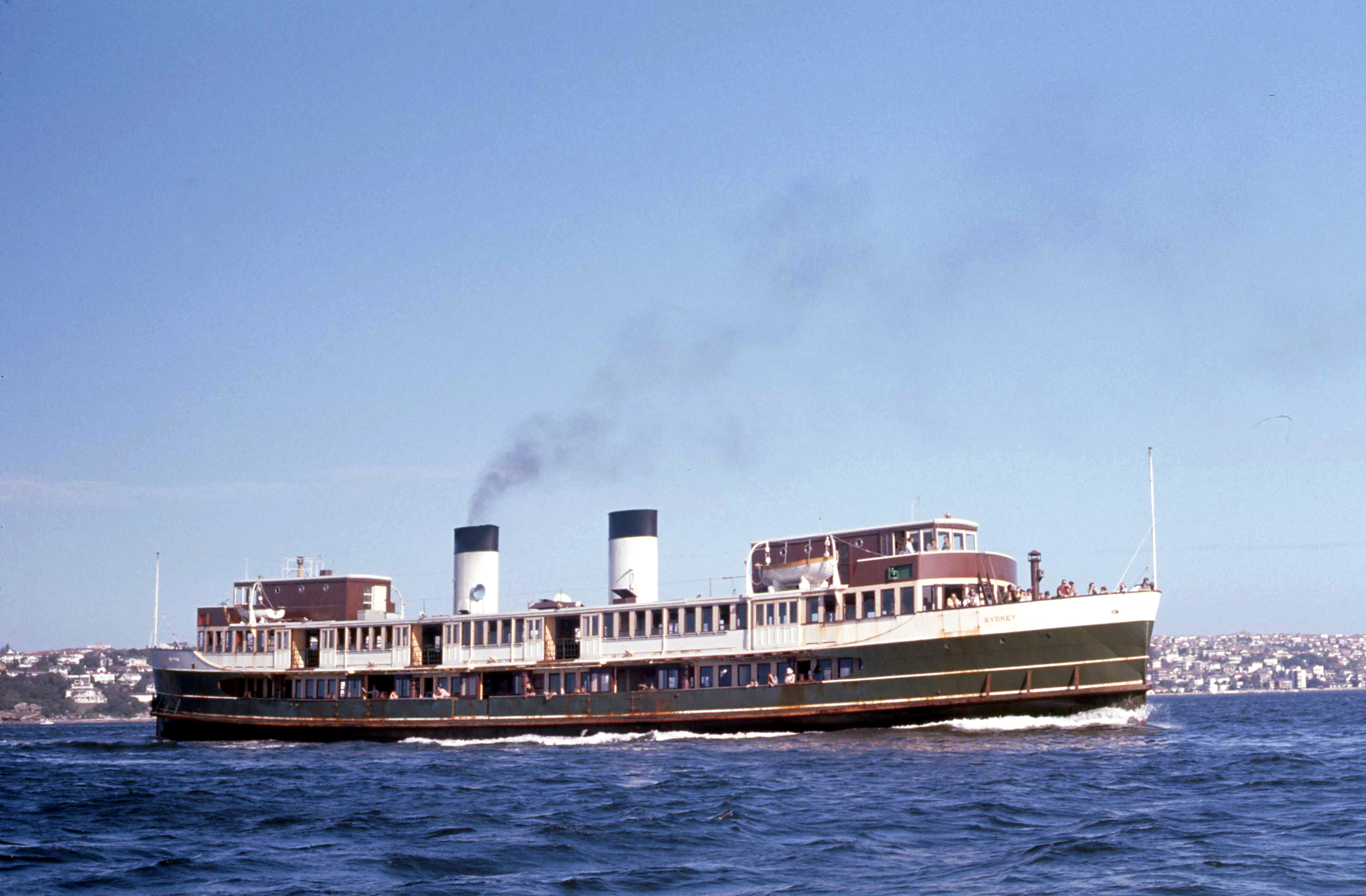 Sydney Ferry NORTH HEAD off Bradley's Head 17 January 1972 John Ward, John Ward Collection - Shipping (17/01/1972), [A-01076514]. City of Sydney Archives, accessed 06 Apr 2020